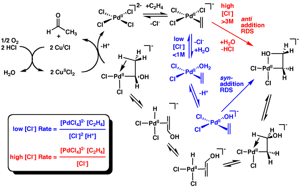 Mechanism of Wacker process